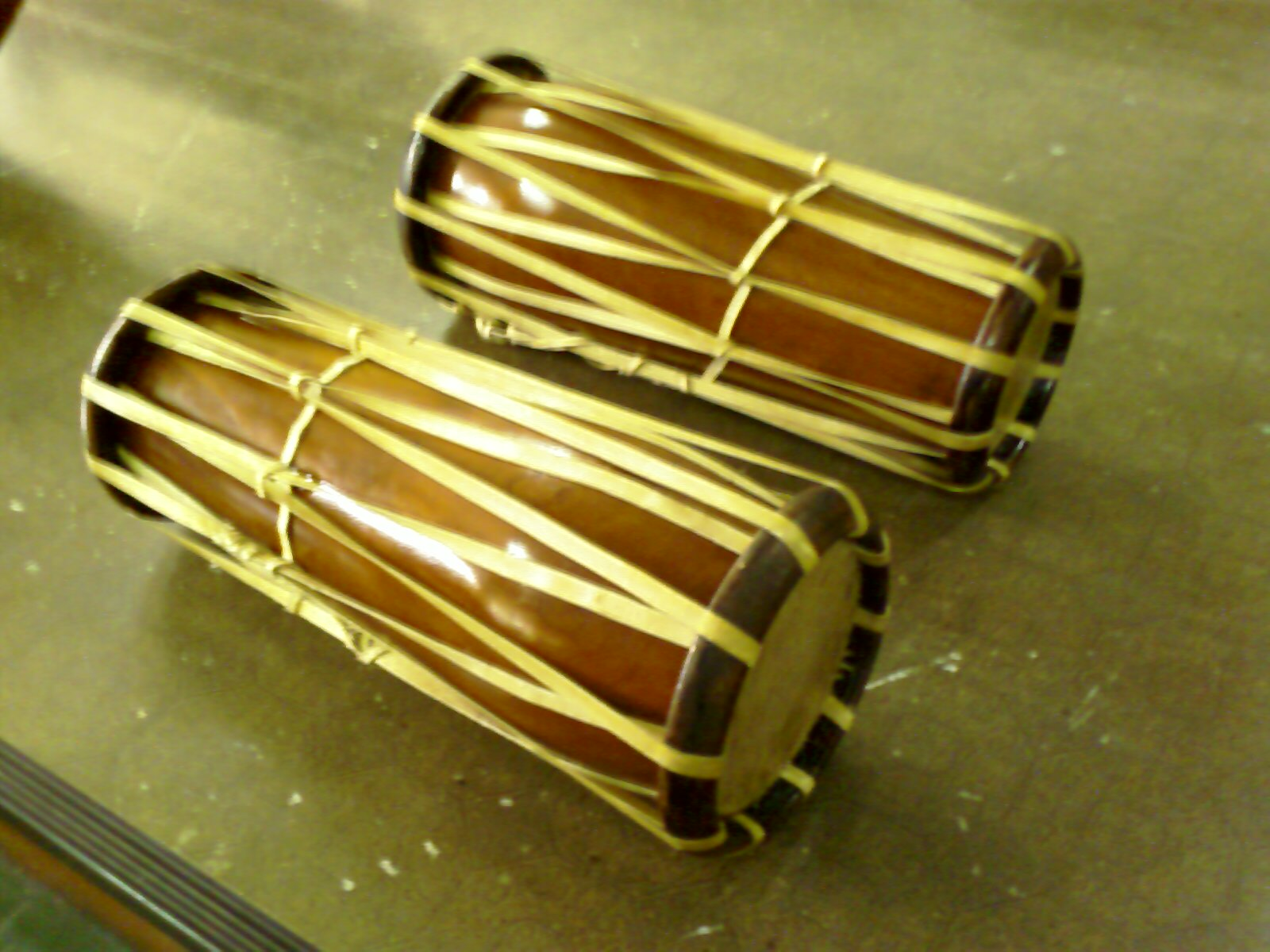 A pair of Glong khaek